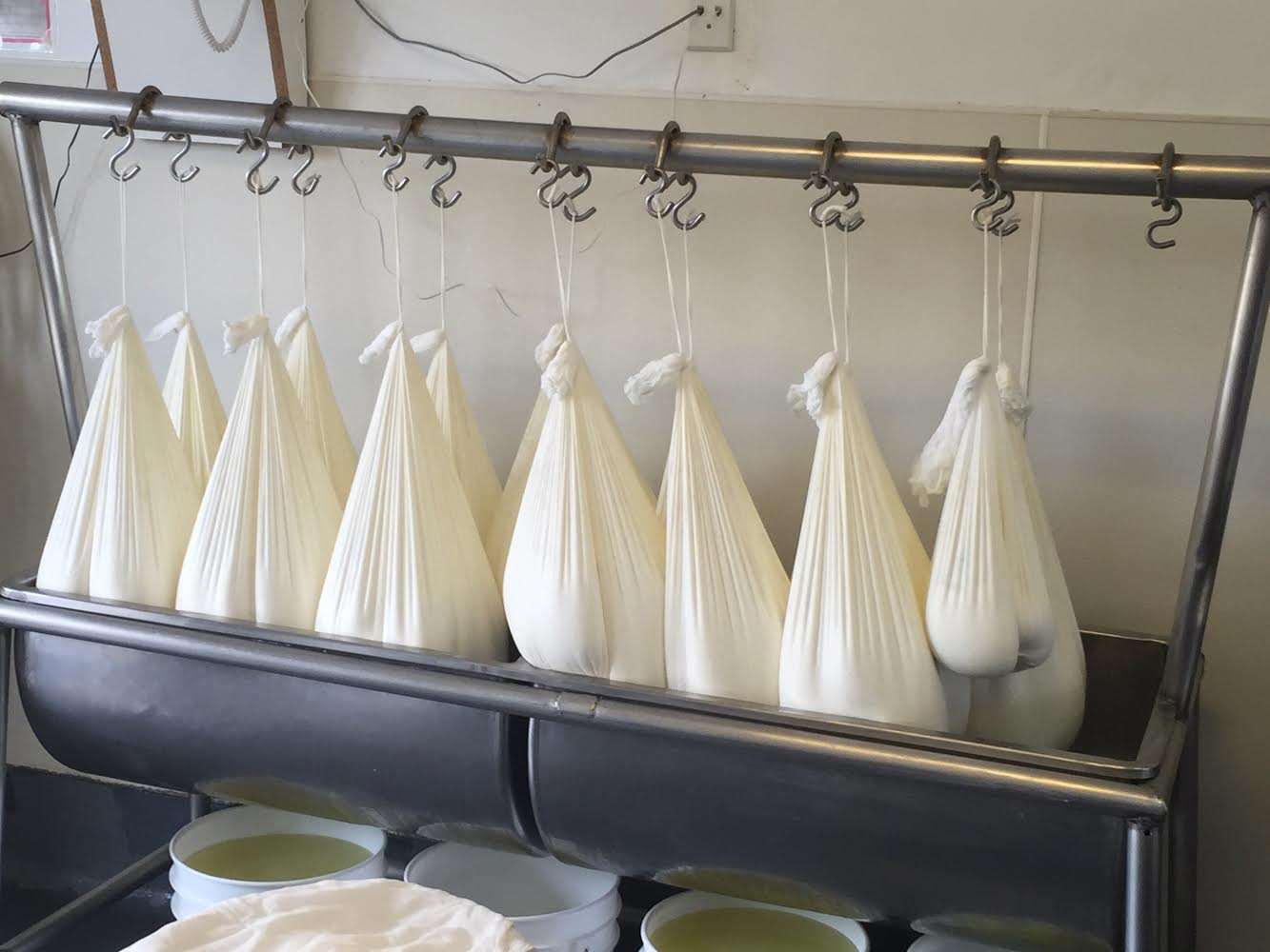 Fresh chevre (goat cheese) being hung to separate the whey from the curds.